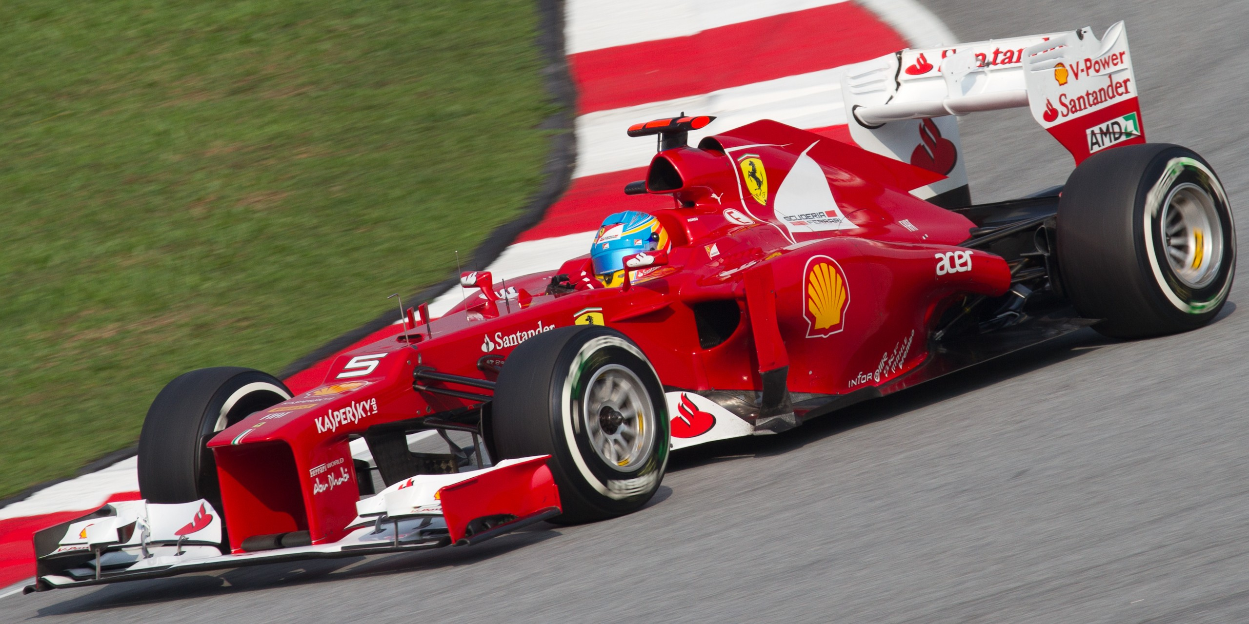 Formula One 2012 Rd.2 Malaysian GP: Fernando Alonso (Ferrari) during the qualify session on Saturday.